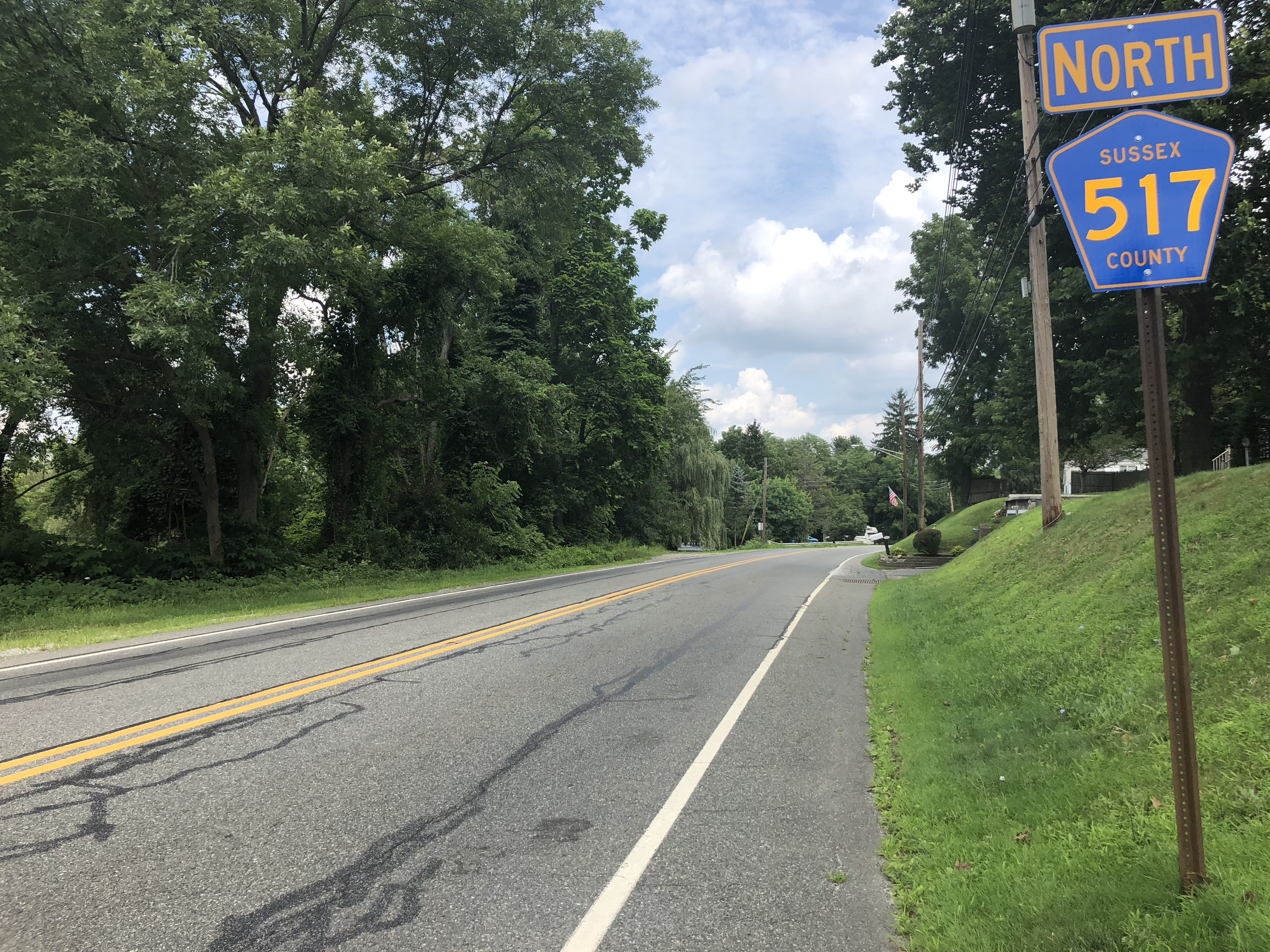 View north along Sussex County Route 517 (Main Street) just north of Bettino Drive and Brooks Flat Road in Ogdensburg, Sussex County, New Jersey